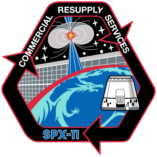 NASA's insignia for SpaceX's eleventh Commercial Resupply Services flight to the International Space Station. Also includes NICER, MUSES and ROSA.